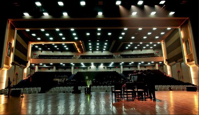 Tagore Auditorium